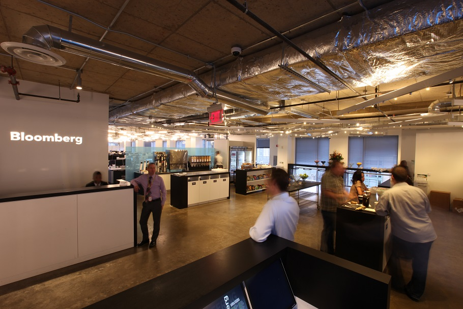 The entrance to the Bloomberg Government offices in Washington, DC. Similar to other Bloomberg LP offices around the world, employees enter through a common collaborative area.